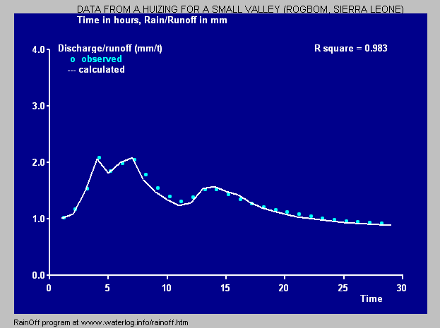 Rainfall-runoff relation simulated by the non-linear reservoir model "RainOff"